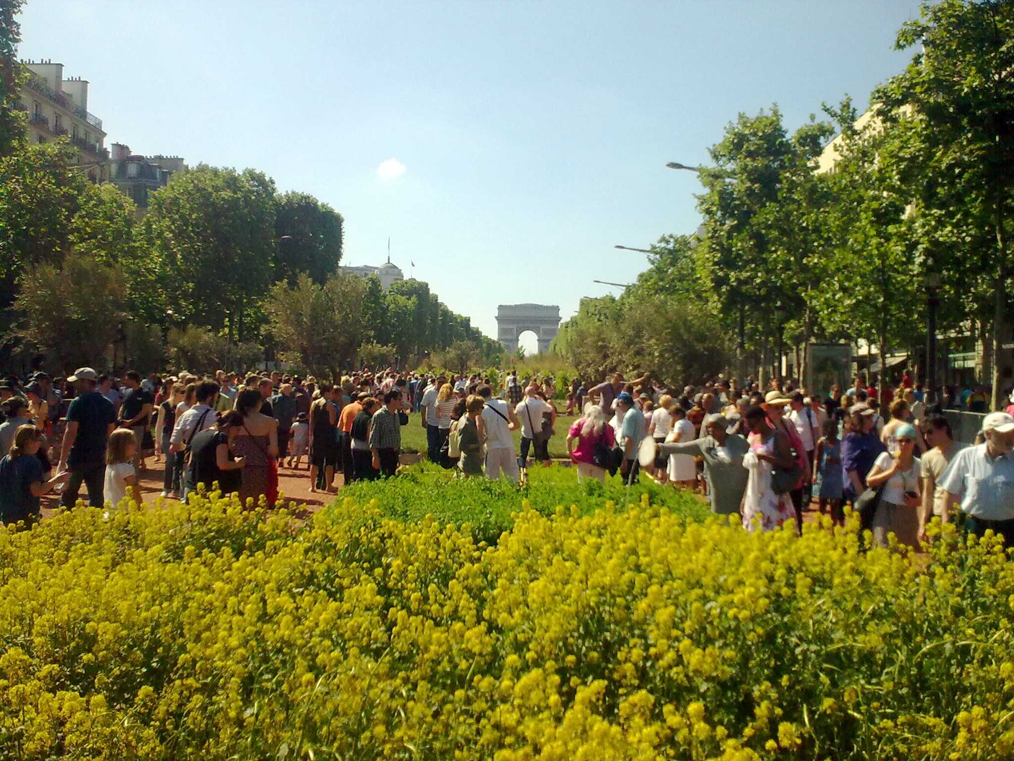 Nature Capitale Paris